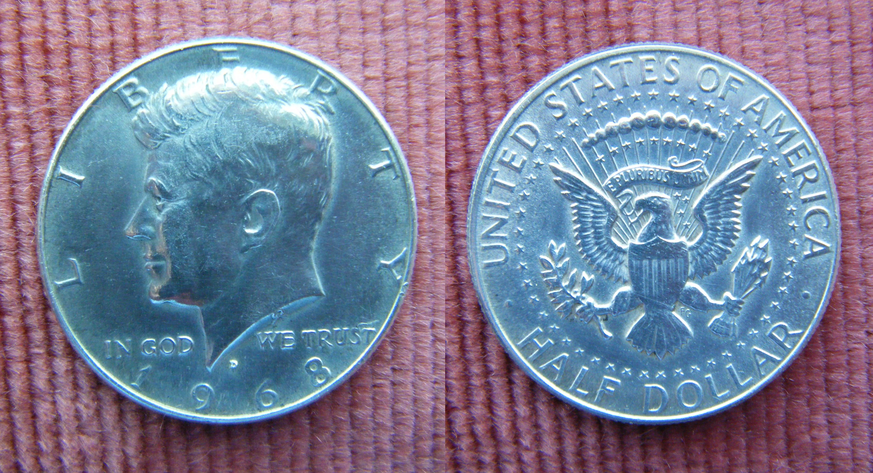 Kennedy half dollar 1968